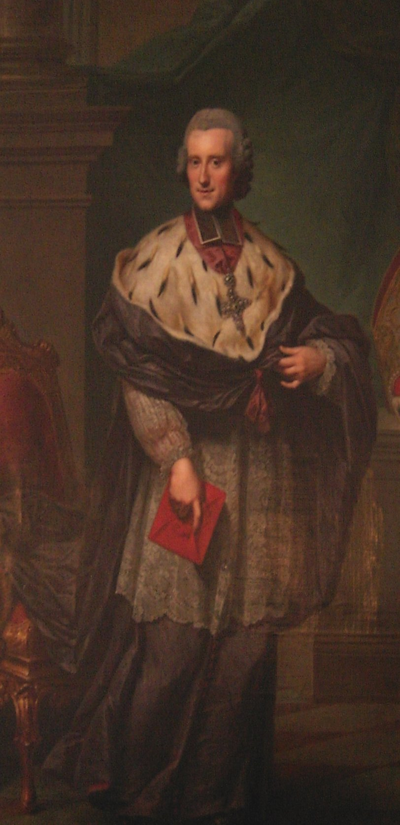 Portrait of Friedrich Wilhelm von Westphalen (1727-1789), bishop of Hildesheim between 1763 and 1789